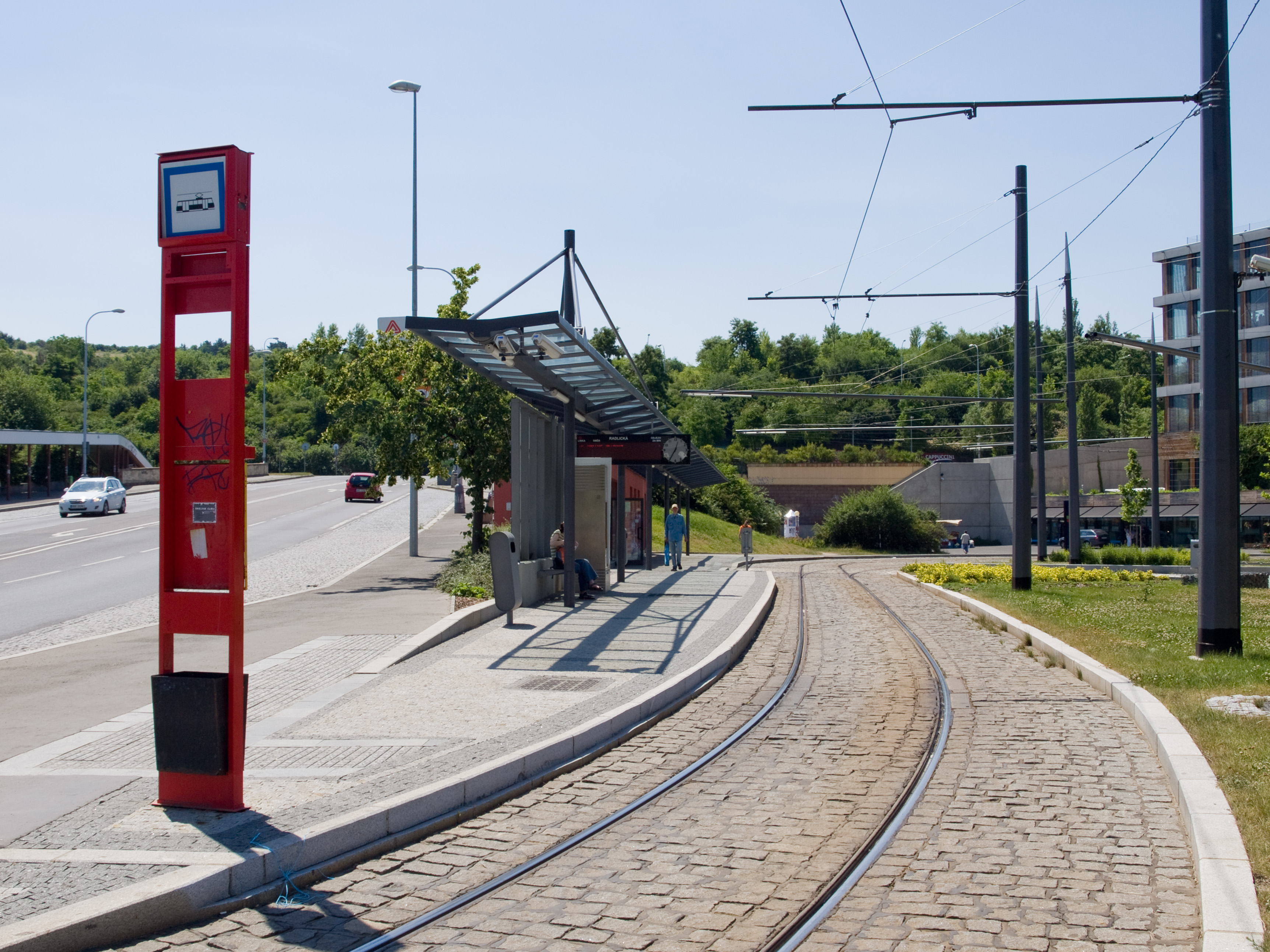 Tram loop Radlická, tram track Na Knížecí – Radlická